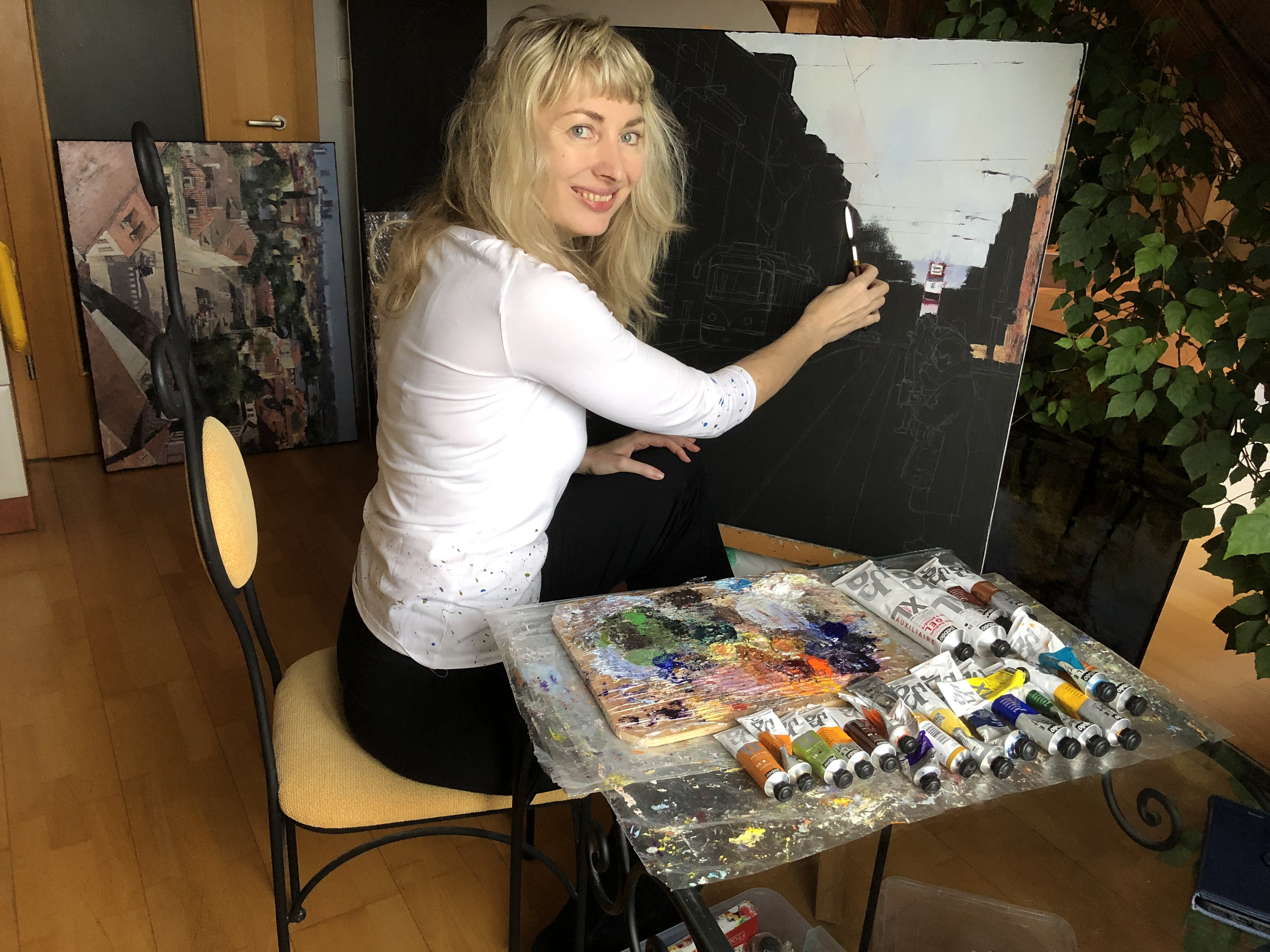 The Artist Martina Krupickova painting